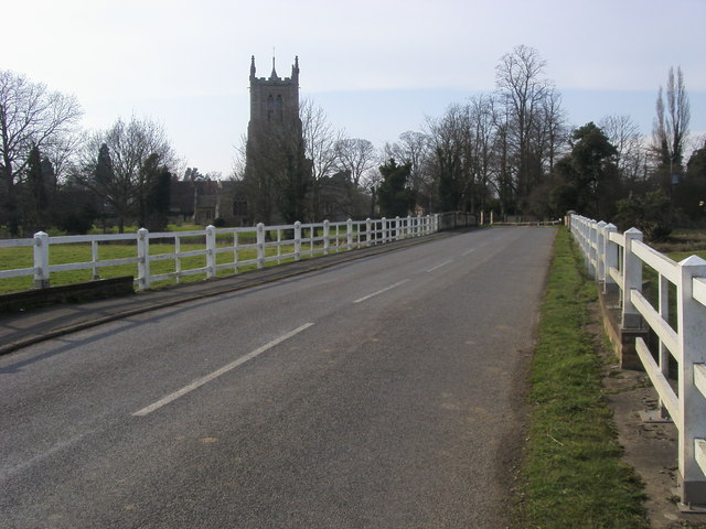 St Andrew's Church Looking across The Causeway over the River Kym to St Andrew's Church Great Staughton